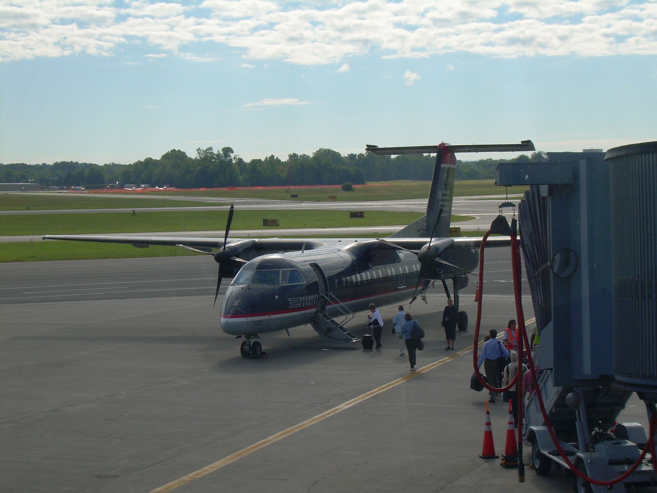 US Airways / Piedmont Airlines Dehaviland Dash 8 at ALB